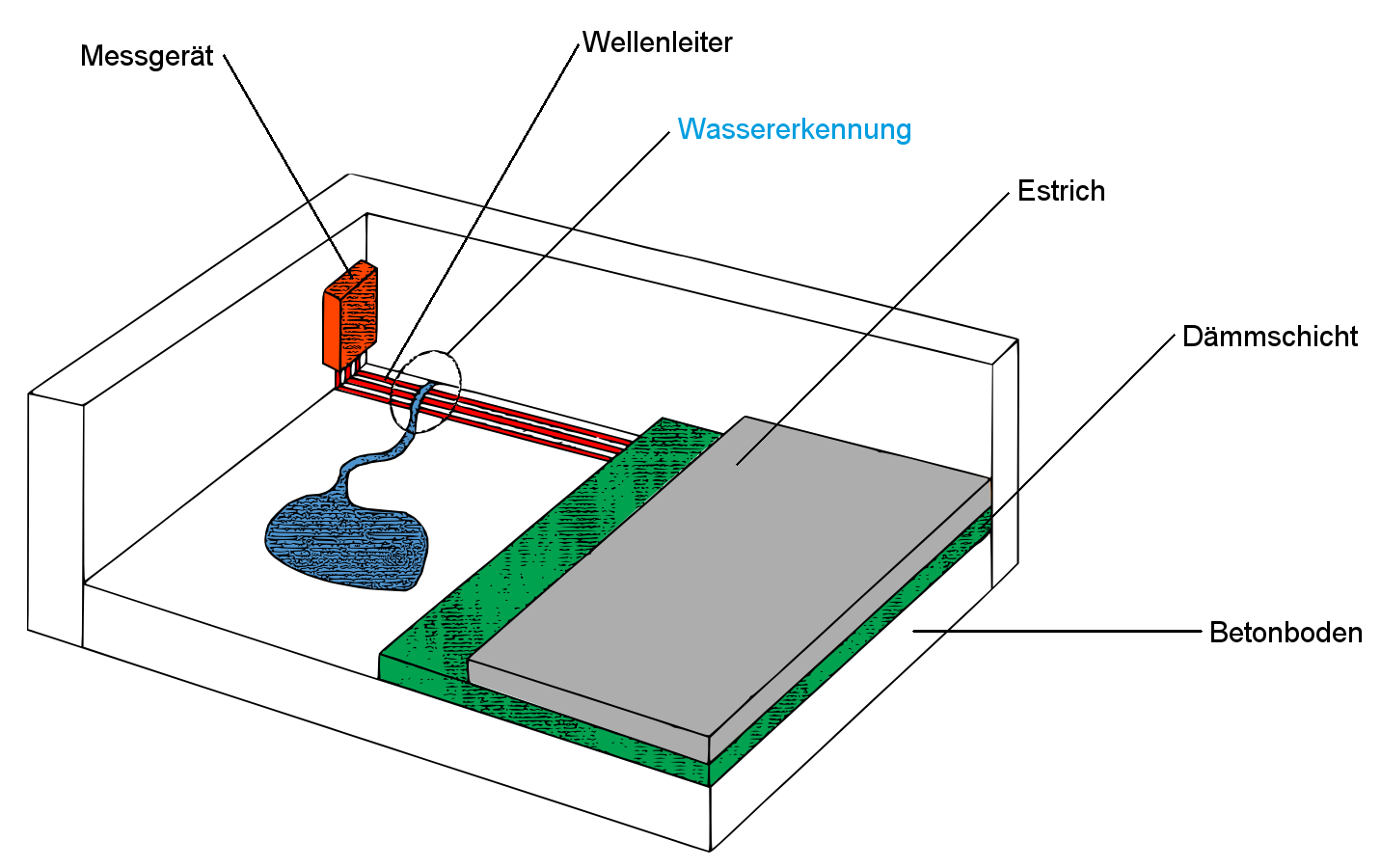 Moisture Detection in Buildings with Time Domain Reflectometry.